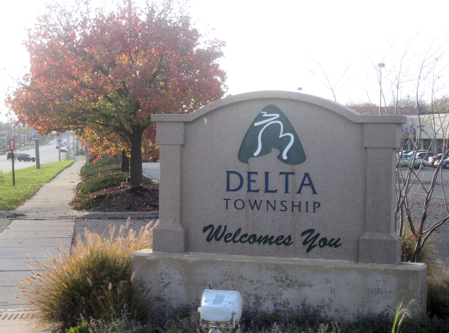 Delta Charter Township entrance sign along westbound M-43 (Saginaw Highway), near Waverly Road.